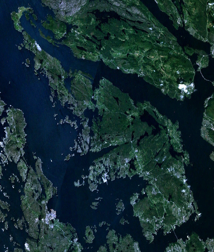 Satellite image of Askøy, Hordaland, Norway.